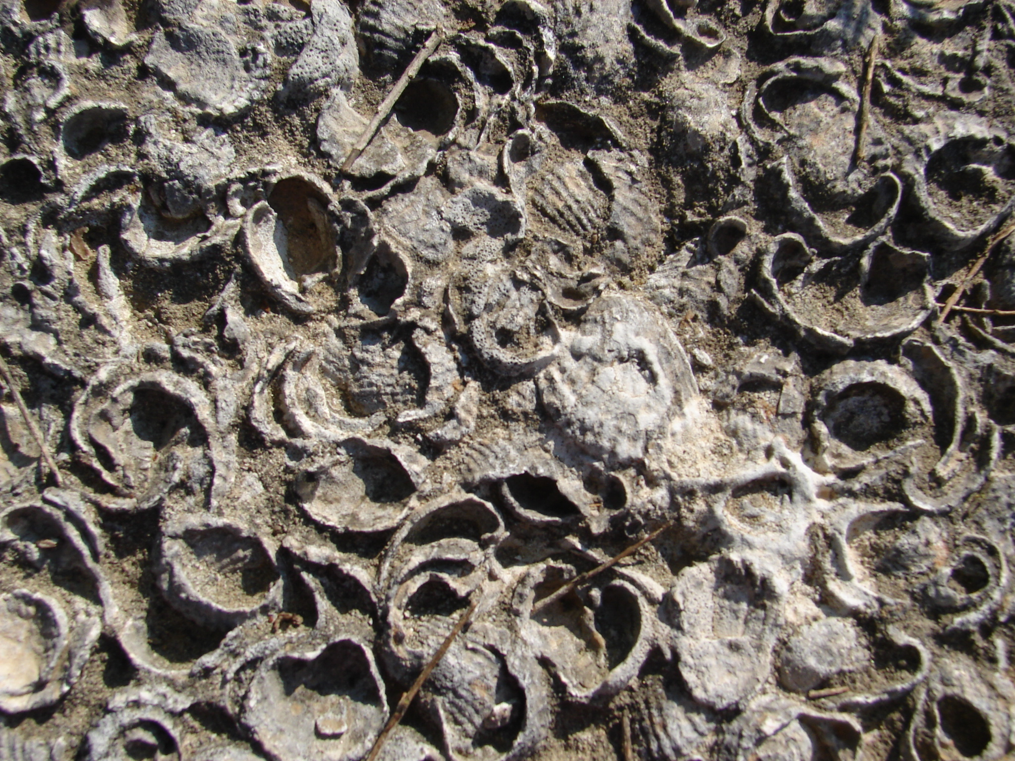 Particular of the olimpic rock April 2006